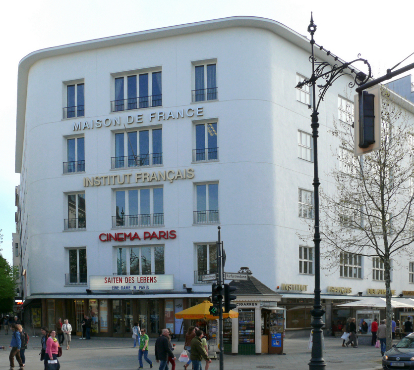 Berlin-Charlottenburg Kurfürstendamm Maison de France